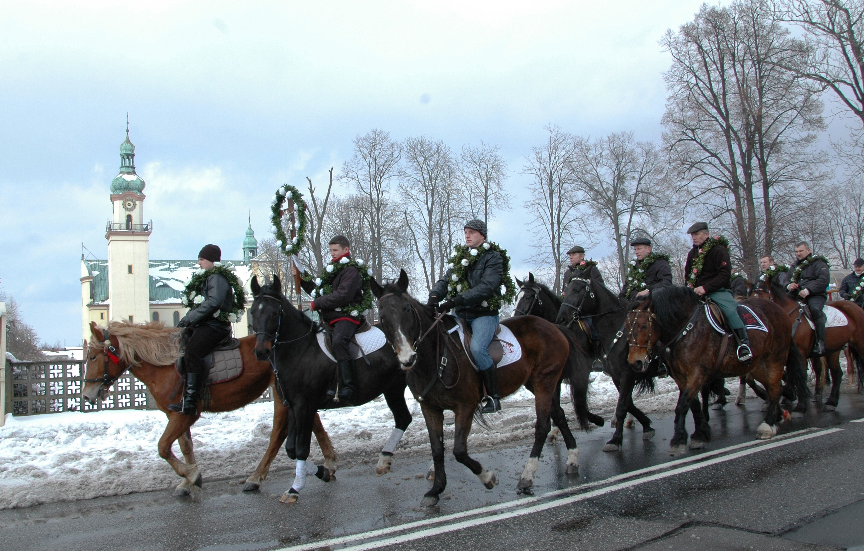 Easter procession on horseback in Gliwice-Ostropa.